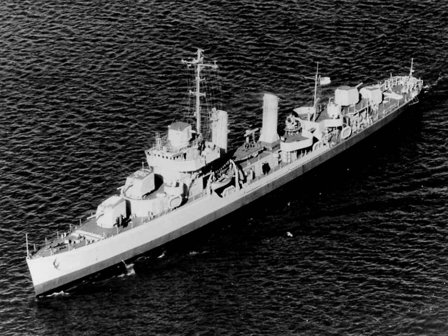 The U.S. Navy destroyer USS Stevenson (DD-645) underway off New York City (USA) on 14 December 1942.